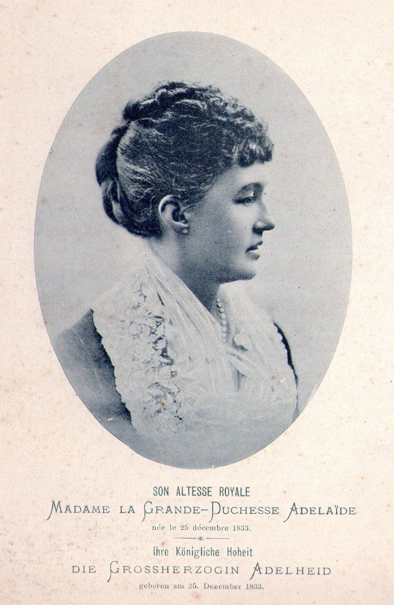 Adelaïde of Luxembourg Cropped from